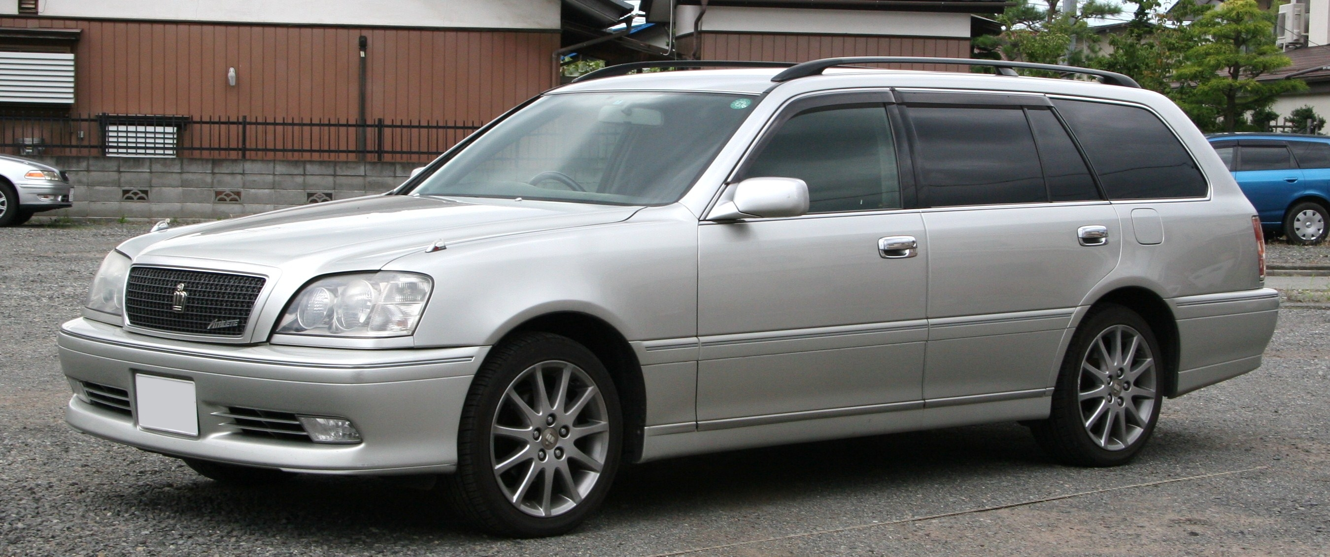 Toyota Crown Estate